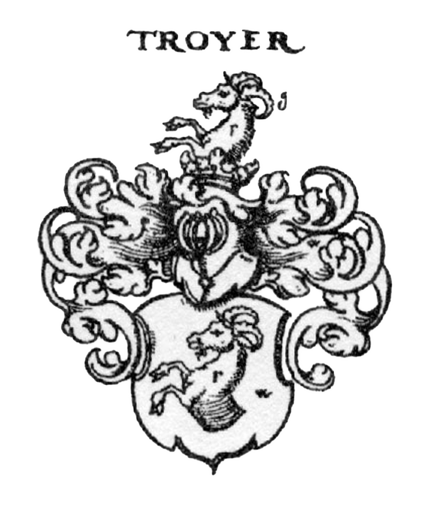 Coat of Arms of Troyer